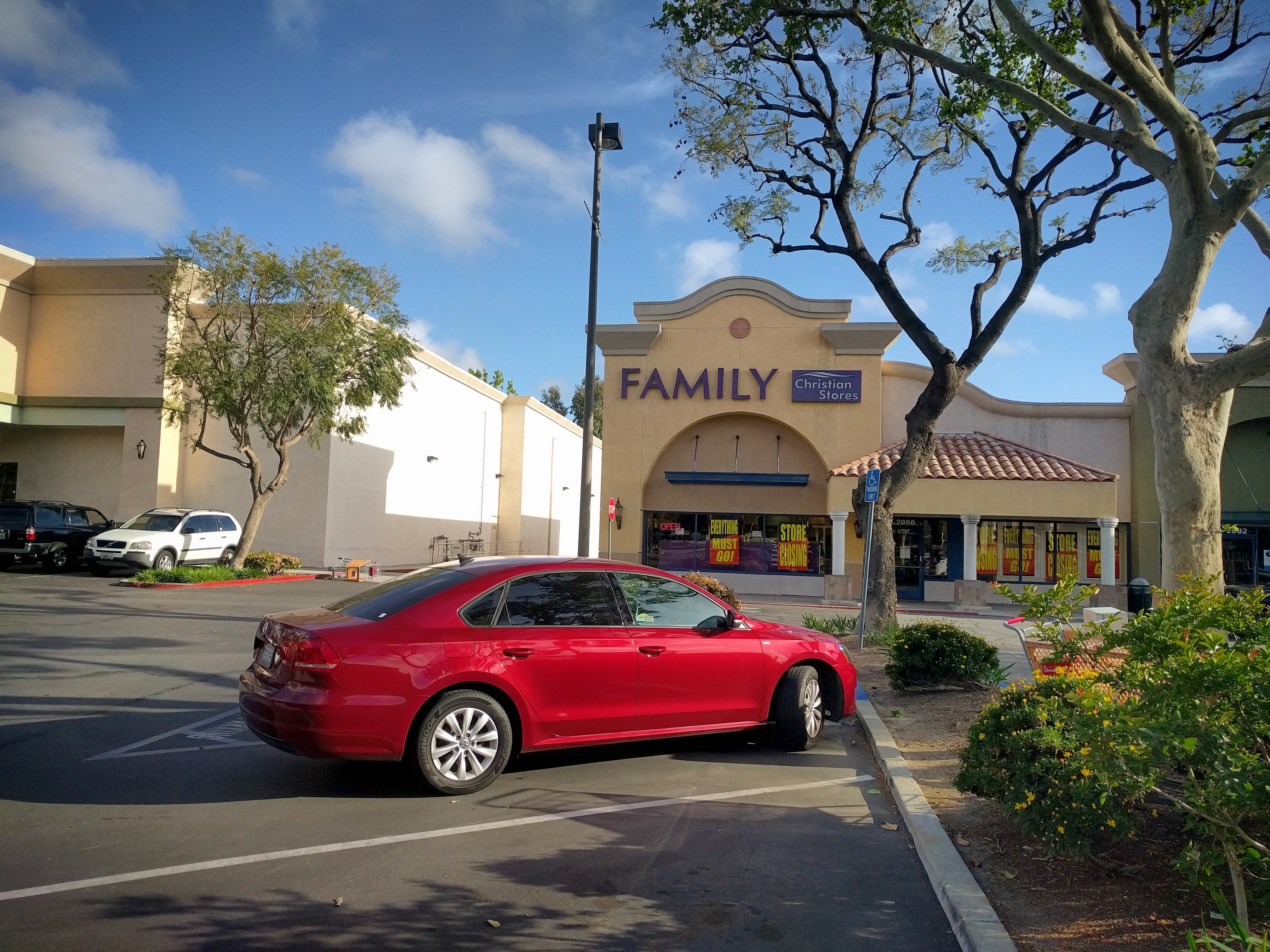 Simi Valley Family Christian Store in April 2017